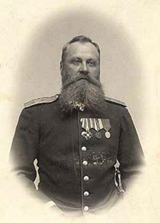 Latvian poet Andrejs Pumpurs (22 September [O.S. 10 September] 1841– 6 July [O.S. 23 June] 1902 ) penned the Latvian epic Lāčplēsis (The Bear Slayer, first published in 1888) and a prominent figure in the Young Latvia movement.